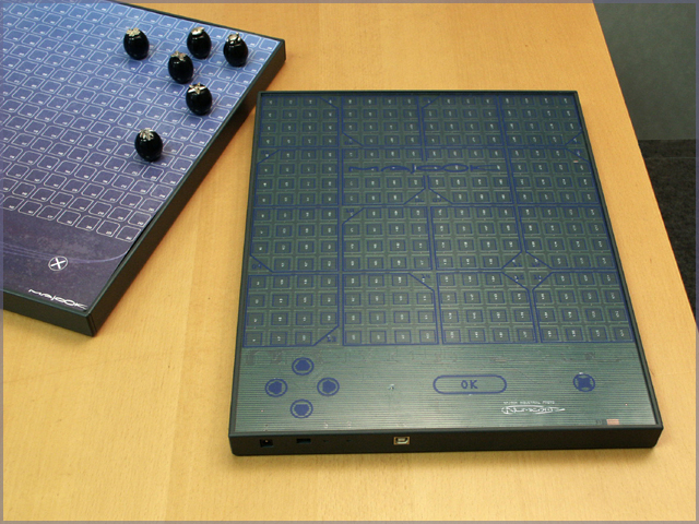 Photo showing two Majook smartboard prototypes with six phicons (smartobjects)